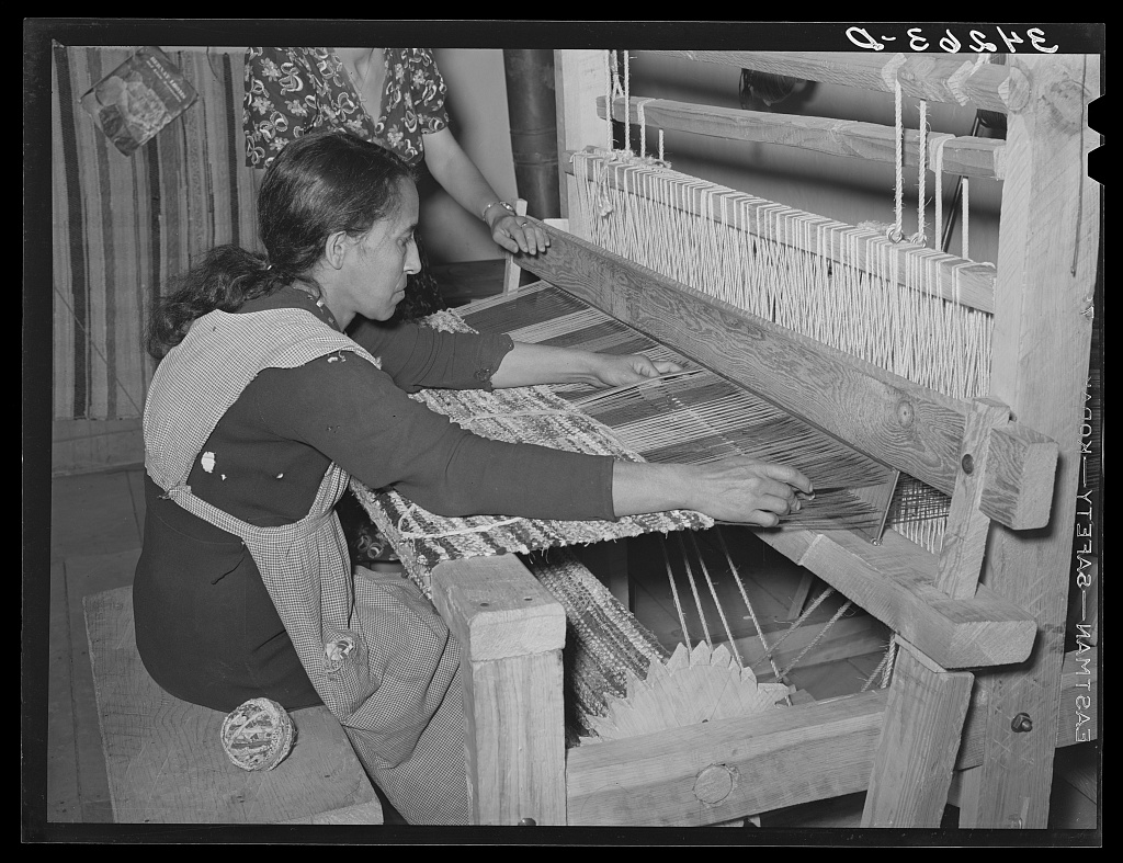 B&W photograph of a woman sitting at a machine. She is running a shuttle through a warp in making a rag rug at the WPA (Works Progress Administration/Work Projects Administration) project at Costilla, New Mexico